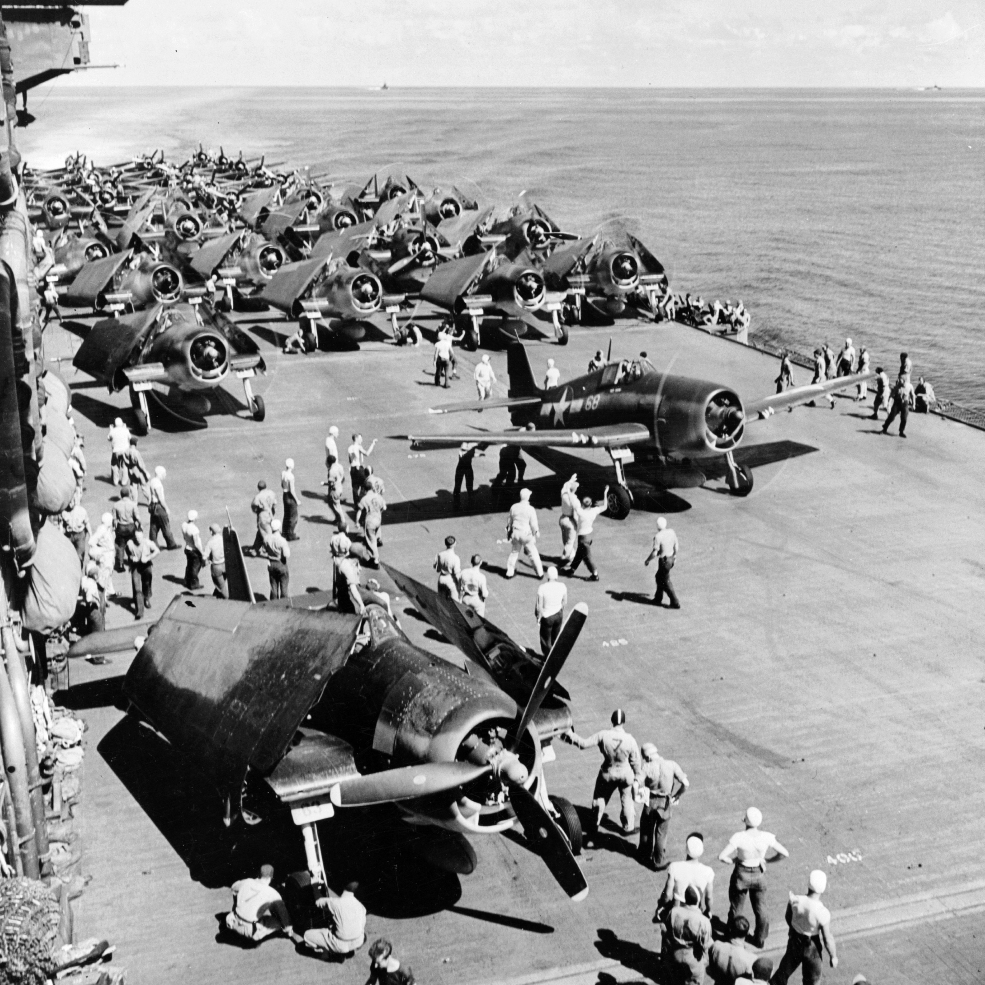 U.S. Navy aircraft from Carrier Air Group 12 (CVG-12) aboard the aircraft carrier USS Saratoga (CV-3) warming up for a strike during the Gilbert Islands campaign. Grumman F6F-3 Hellcats are in the foreground, followed by Grumman TBF-1 Avenger´s and Douglas SBD-5 Dauntless.